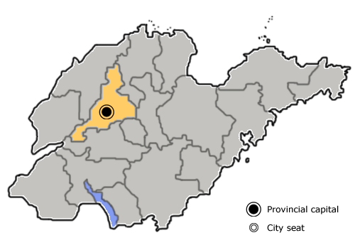 The sub-provincial city of Jinan is highlighted on this map of Shandong province, People's Republic of China.